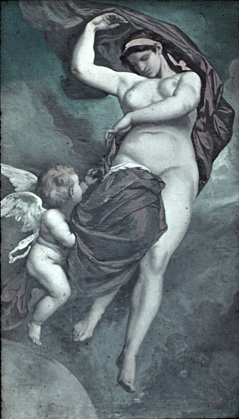 Anselm Feuerbach: Gaea (1875). Ceiling painting, Academy of Fine Arts Vienna